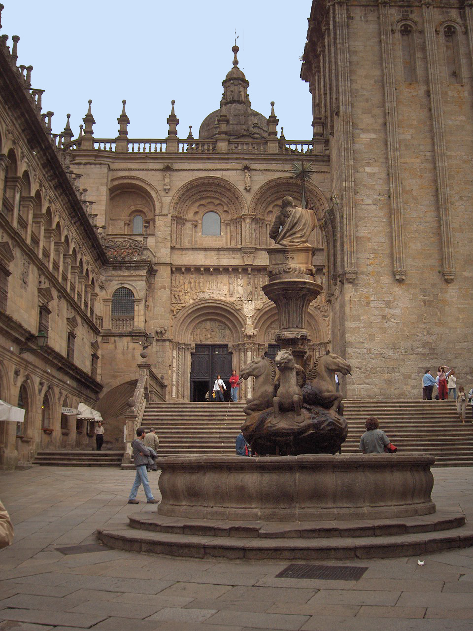 ¨raza das Praterias; cathedral of Santiago de Compostela, Spain